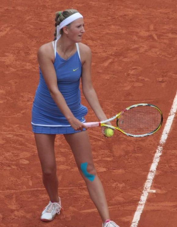 Victoria Azarenka at 2009 Roland Garros, Paris, France